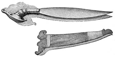 Sulu Barong and Sheath.